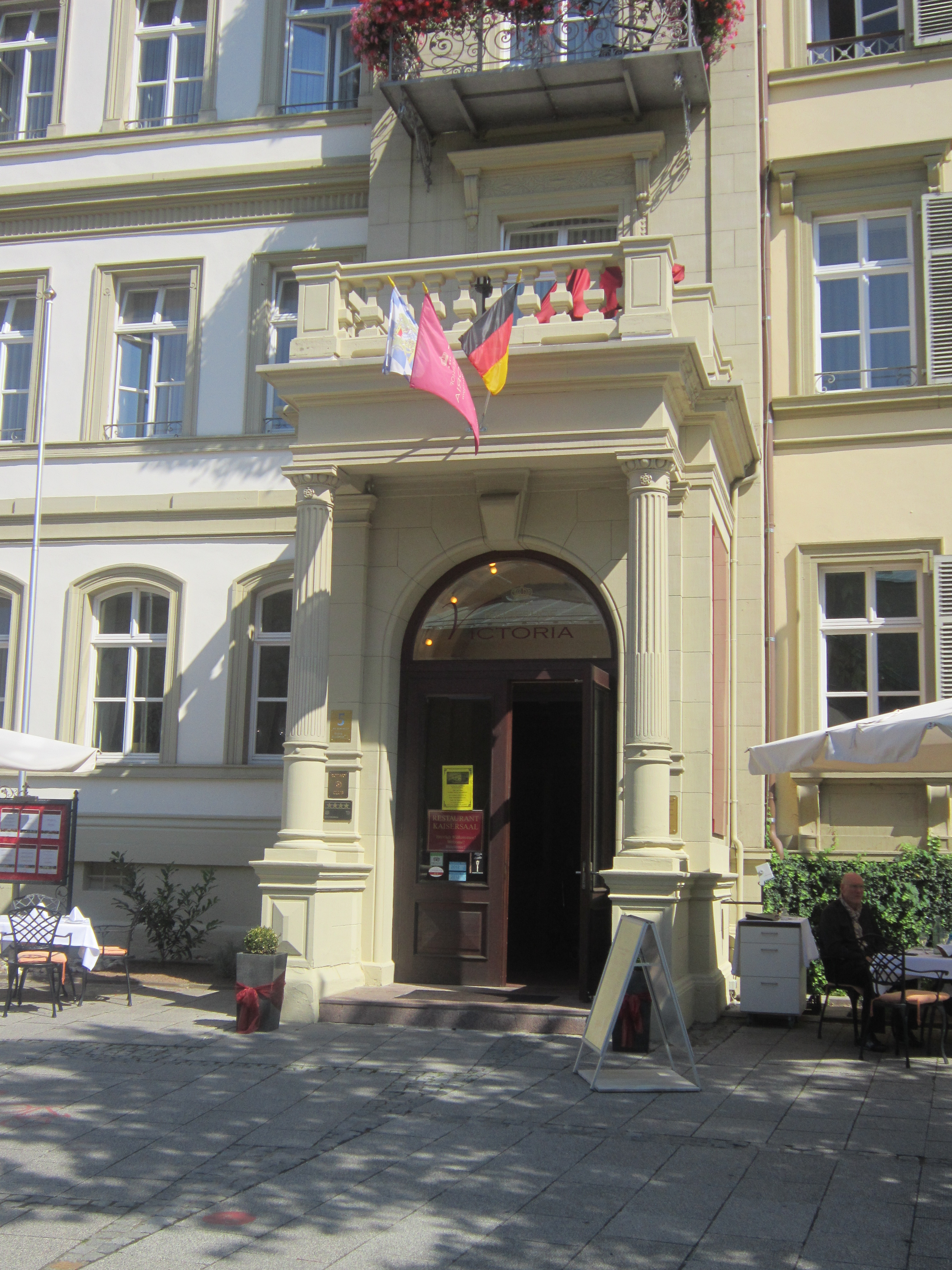 Entrance of the „Kaiserhof Victoria“, a hotel in Bad Kissingen, a quarter of the German spa town of Bad Kissingen in Lower Franconia.